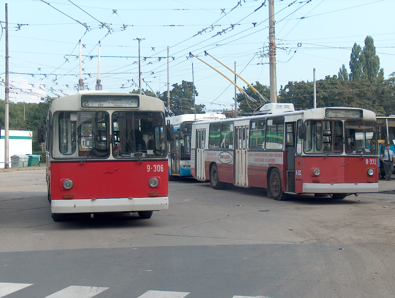 Ziu-9 type trolleybuses in Debrecen